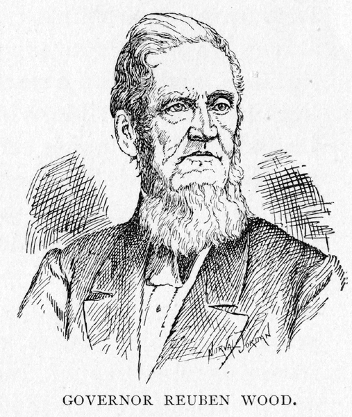 Artist's depiction of Reuben Wood.